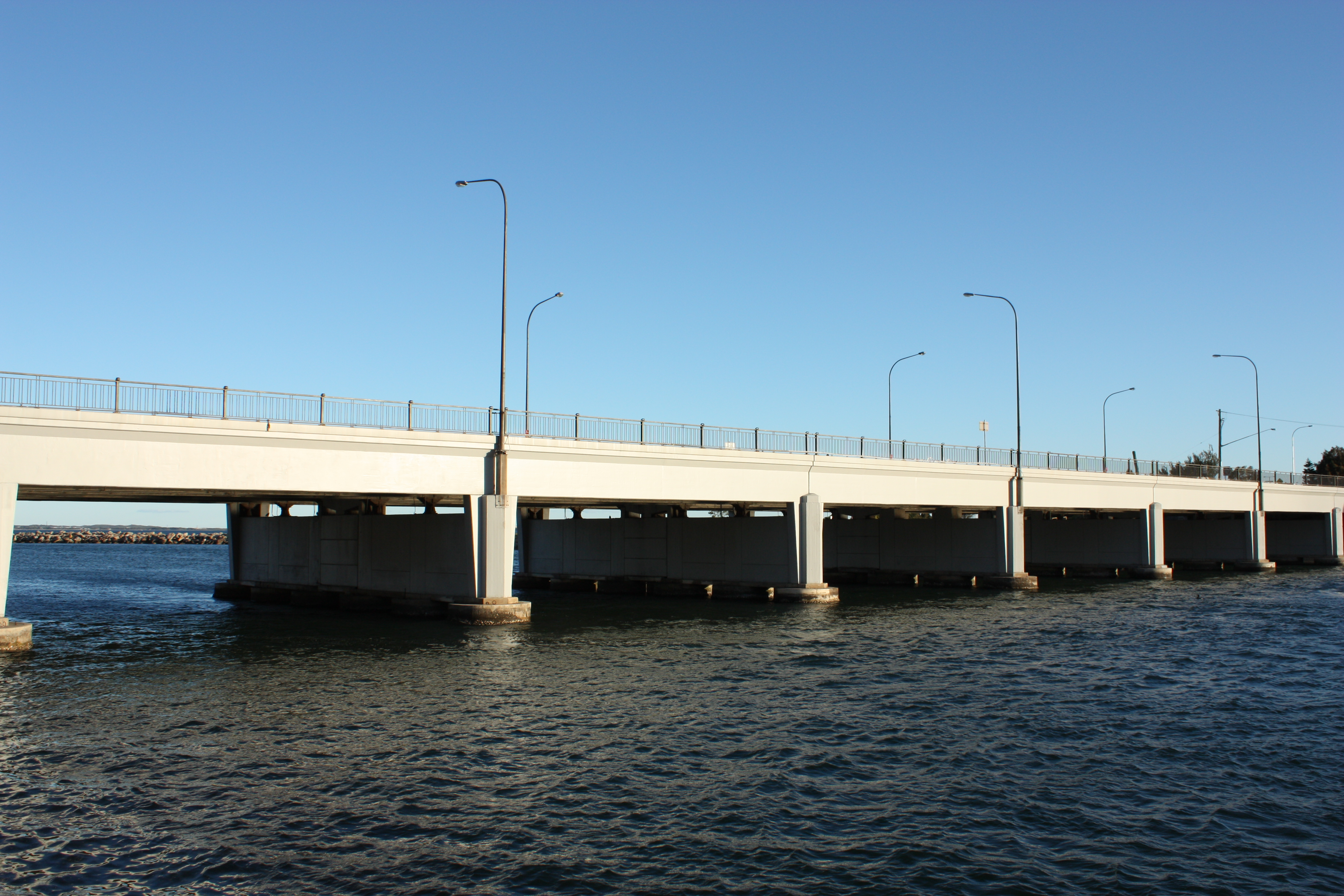 Endeavour Bridge, Cooks River, Kyeemagh, New South Wales, Australia